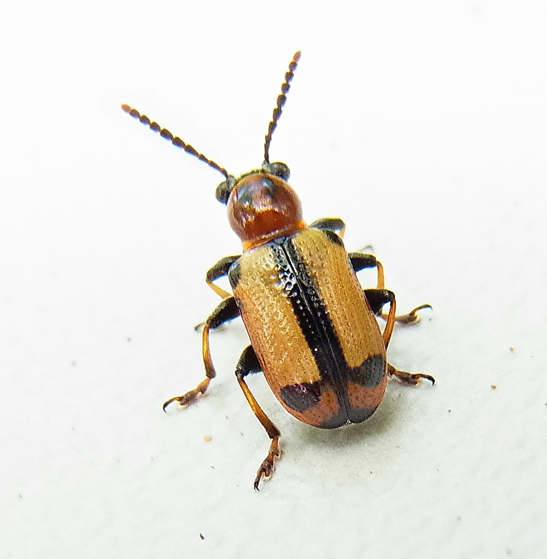 Crioceris paracenthesis from Spain, Catalonia, near 08779 La Llacuna, Barcelona at 2013-06-17